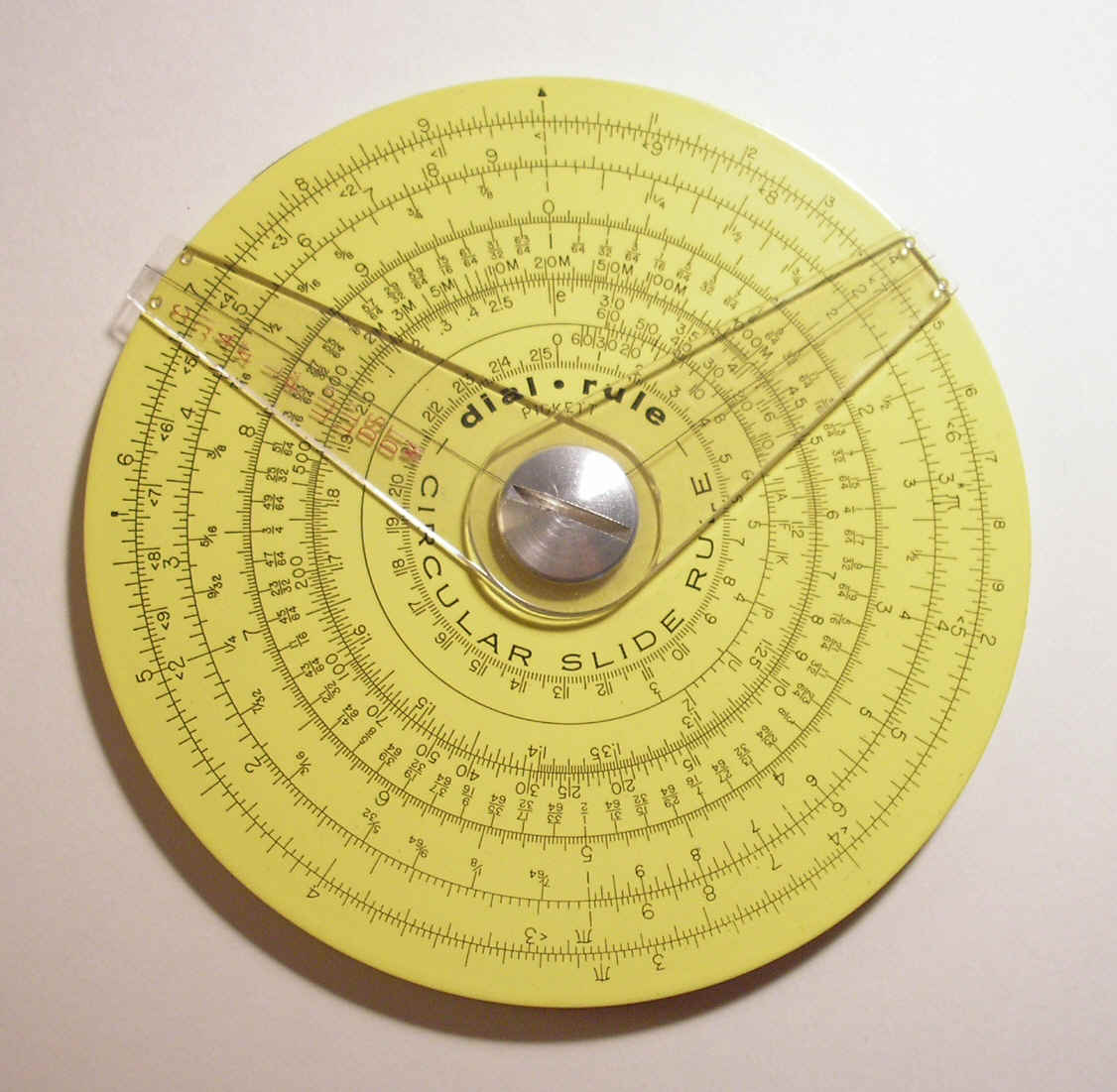 Description: Pickett circular slide rule Source: Scanned image of my personal property Date: 20 November 2006 04:55 UTC Author: (Dick107)